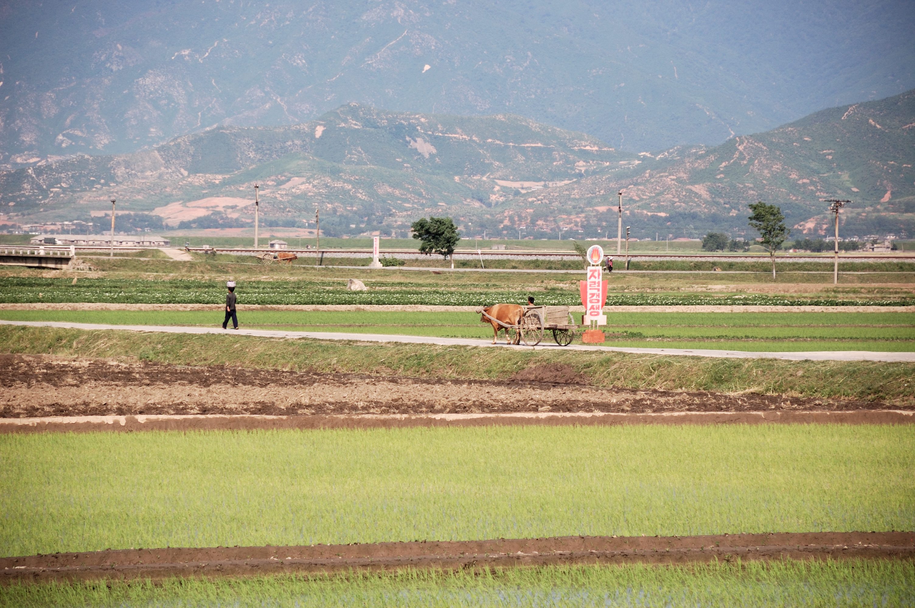 Trip to North Korea in June, 2008